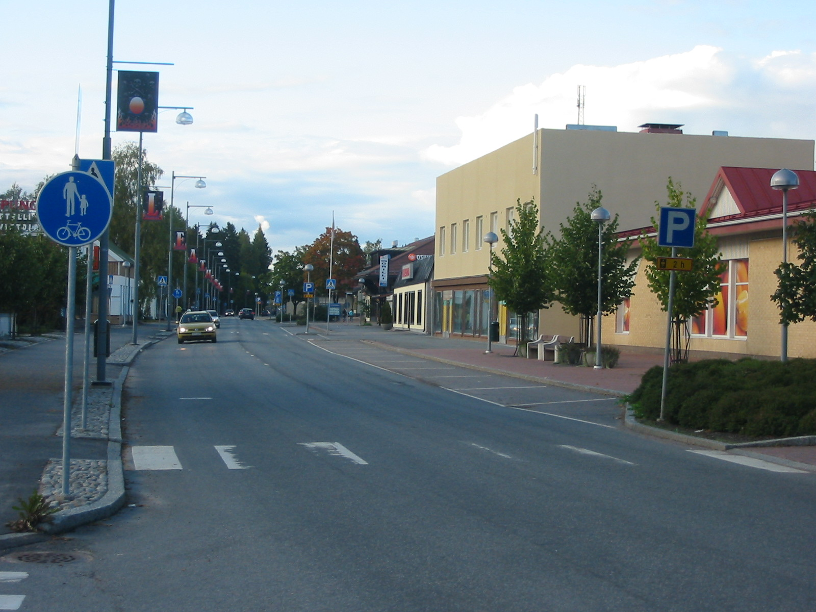 Joensuuntie in Somero, Finland